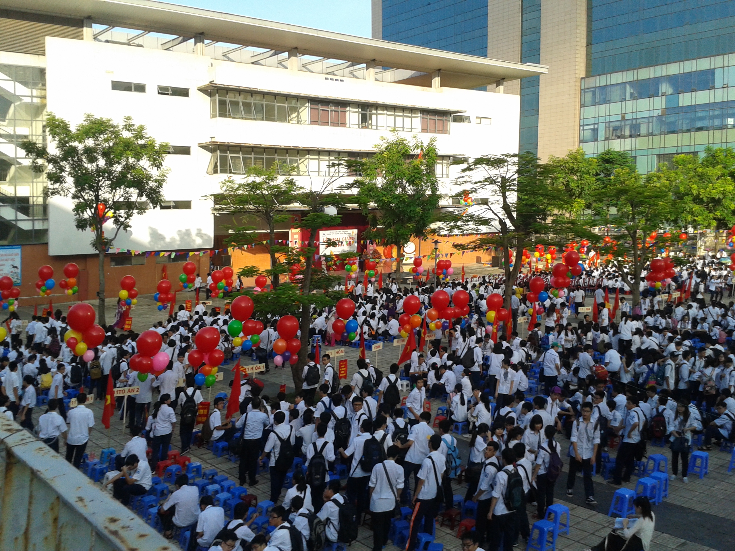 2014 – 2015 school year opening ceremony at Hanoi – Amsterdam High School